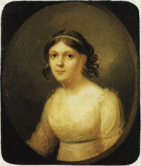 Pelageya Yushkova (1797-1875), the aunt of Leo Tolstoy